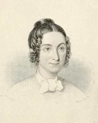 Illustrated portrait of American writer Lydia Huntley Sigourney (1791–1865). From American Women: Fifteen Hundred Biographies with Over 1,400 Portraits, Frances E. Willard and Mary A. Livermore, editors. Mast, Crowell & Kirkpatrick, 1897 (revised edition from 1893), vol. 2, p. 657. Cropped version.